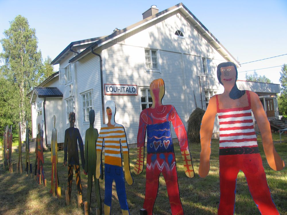 Louhitalo, village house, Eno